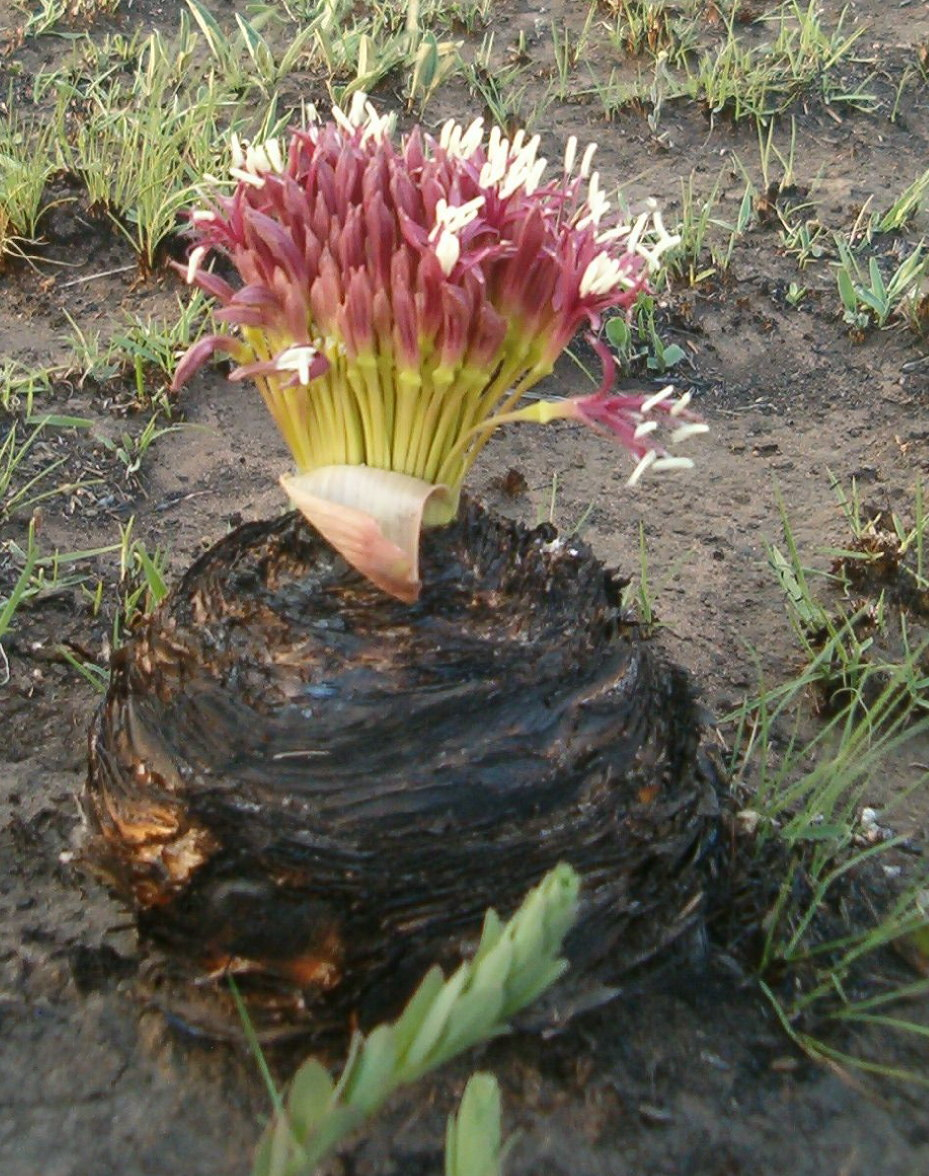 At Sterkfonteindam, Free State, South Africa Species Boophone disticha